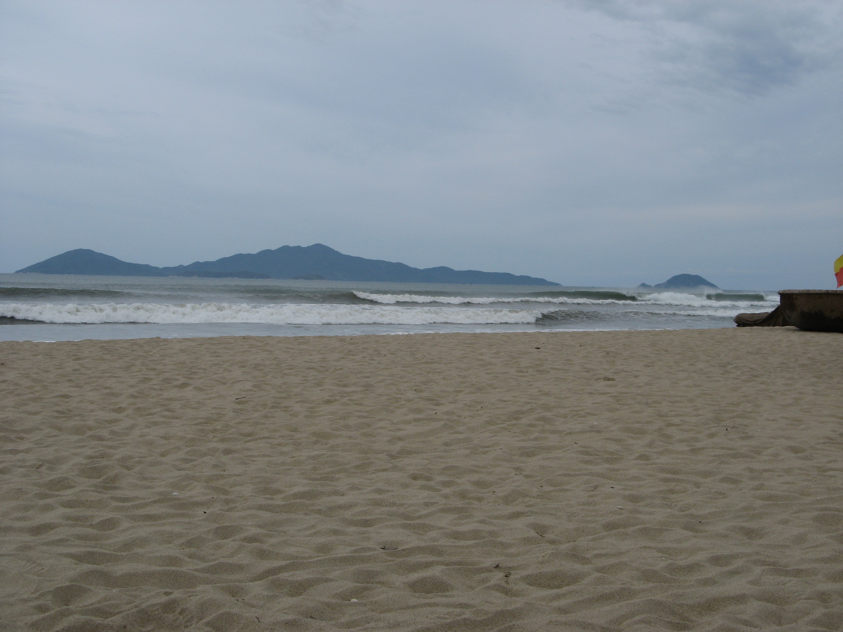 View of Chamba Island, Vietnam